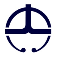 Oyodo Nara chapter